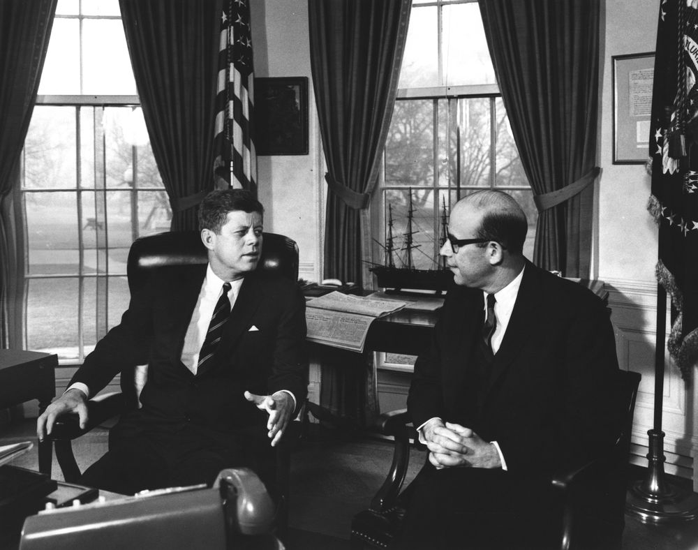 President John F. Kennedy meets with newly-appointed United States Ambassador to Ethiopia, Edward M. Korry, 9:50 AM